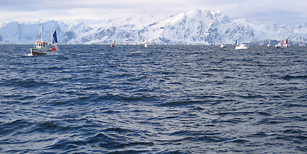 The Lofoten fisheries. Off Ballstad, March 2005.